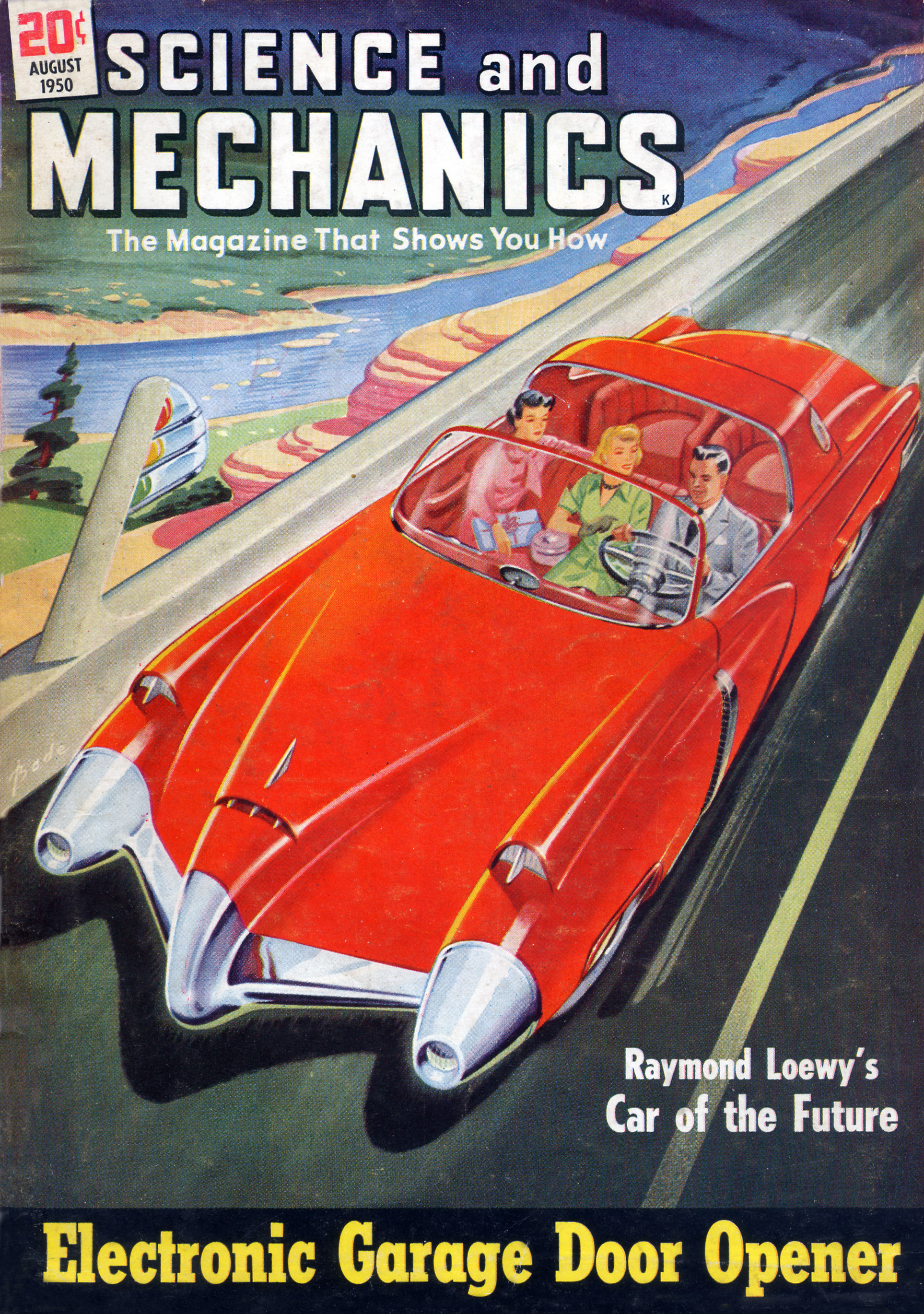 "Car of the Future" as conceived by Studebaker's Director of Styling, Raymond Loewy, in the August 1950 issue of Science and Mechanics. Loewy wrote about the new styling for "tomorrow's rocket age population" but dismissed the idea of clear plastic tops and turbine engines. The three point front end was a design feature on the 1951 Studebaker. Some of the other elements of this concept model influenced the 1953 Studebaker Starliner. The cover art was done by Arthur C. Bade, a staff illustrator for Science and Mechanics from 1944 to 1955. This magazine cover was lightly soiled and had a few minor folds, scratches and cuts. It was scanned with an Epson Perfection V500 scanner and saved as a 400 dpi tiff file. The restoration was done in Adobe Photoshop Elements. The magazine size is 6.5 by 9.25 inches (165 by 235 mm) and has 224 pages.